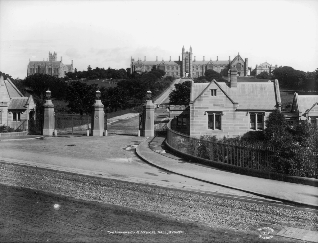 Format: Glass plate negative. Repository: Tyrrell Photographic Collection, Powerhouse Museum Part Of: Powerhouse Museum Collection General information about the Powerhouse Museum Collection is available at Persistent URL: Acquisition credit line: Gift of Australian Consolidated Press under the Taxation Incentives for the Arts Scheme, 1985 Description: The University of Sydney's main quandrangle and the medical school (Anderson Stuart Building), seen from the eastern end of the former entrance avenue at the corner of City Road and Parramatta Road, through Victoria Park. The entrance avenue was restored as a pedestrian path in the late 20th century, and the gates (for a time removed to the University's City Road entrance) were restored to this position in 2007. The Gardener's Lodge (extant) and the Messenger's Lodge (demolished 1940) flank the entrance.